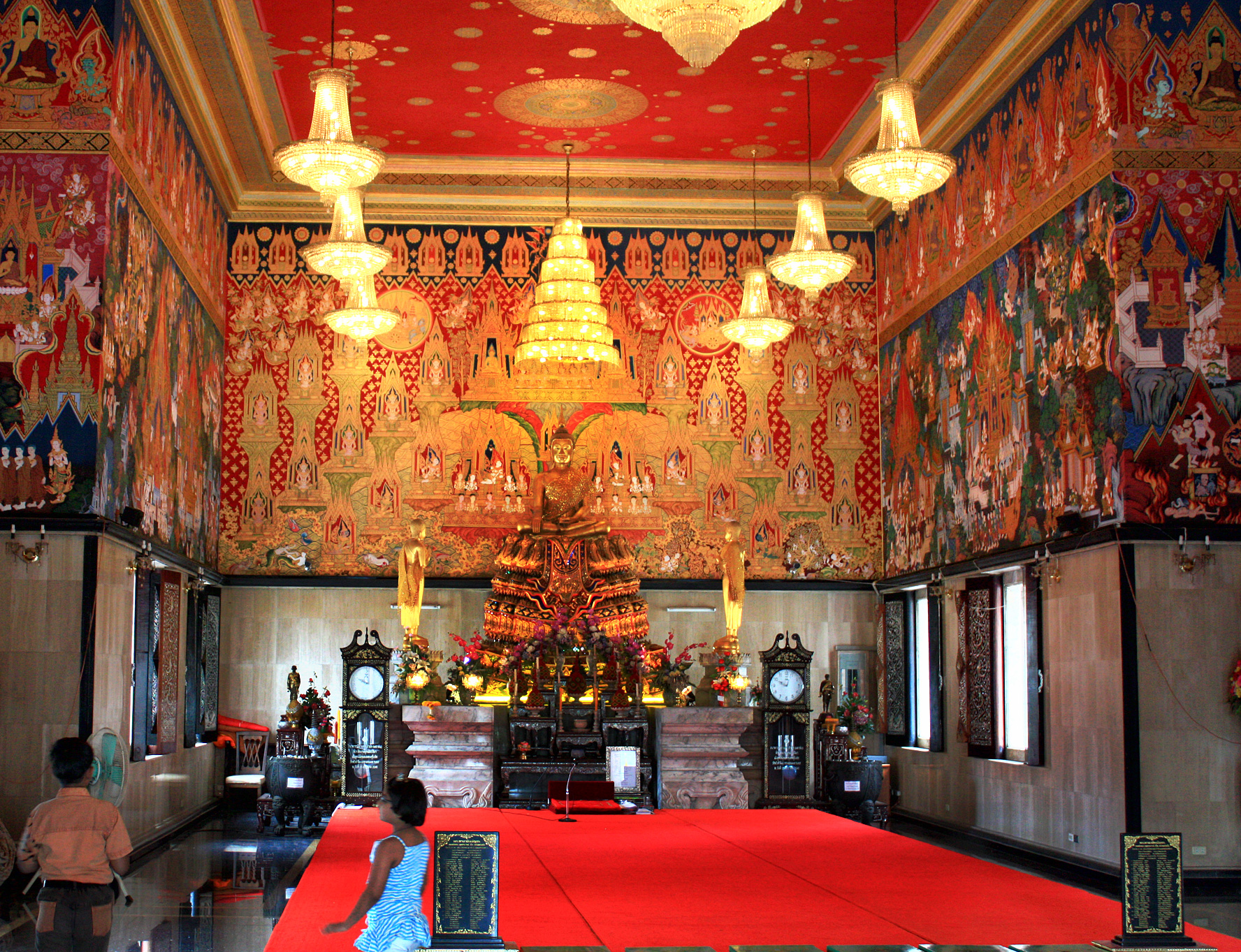 Wat Hualamphong, district Bang Rak, Bangkok